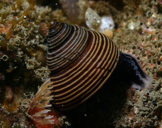 The blue top snail Calliostoma ligatum is among the most common gastropods seen crawling around in central California kelp forests. It is partially protected by a slimy coating on its shell, making it difficult for sea stars to grab the snail with its many tube feet.